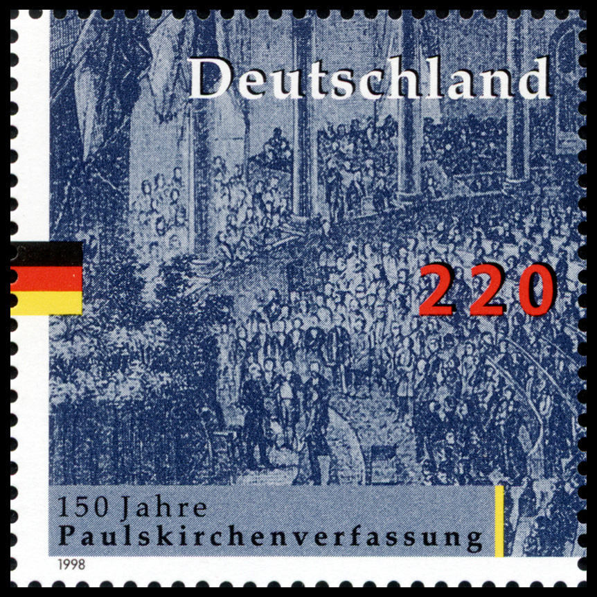 Stamp from Deutsche Post AG from 1998, 150th anniversary Paulskirchenverfassung